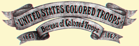 The banner for the Bureau of Colored Troops. Date and place created are unknown